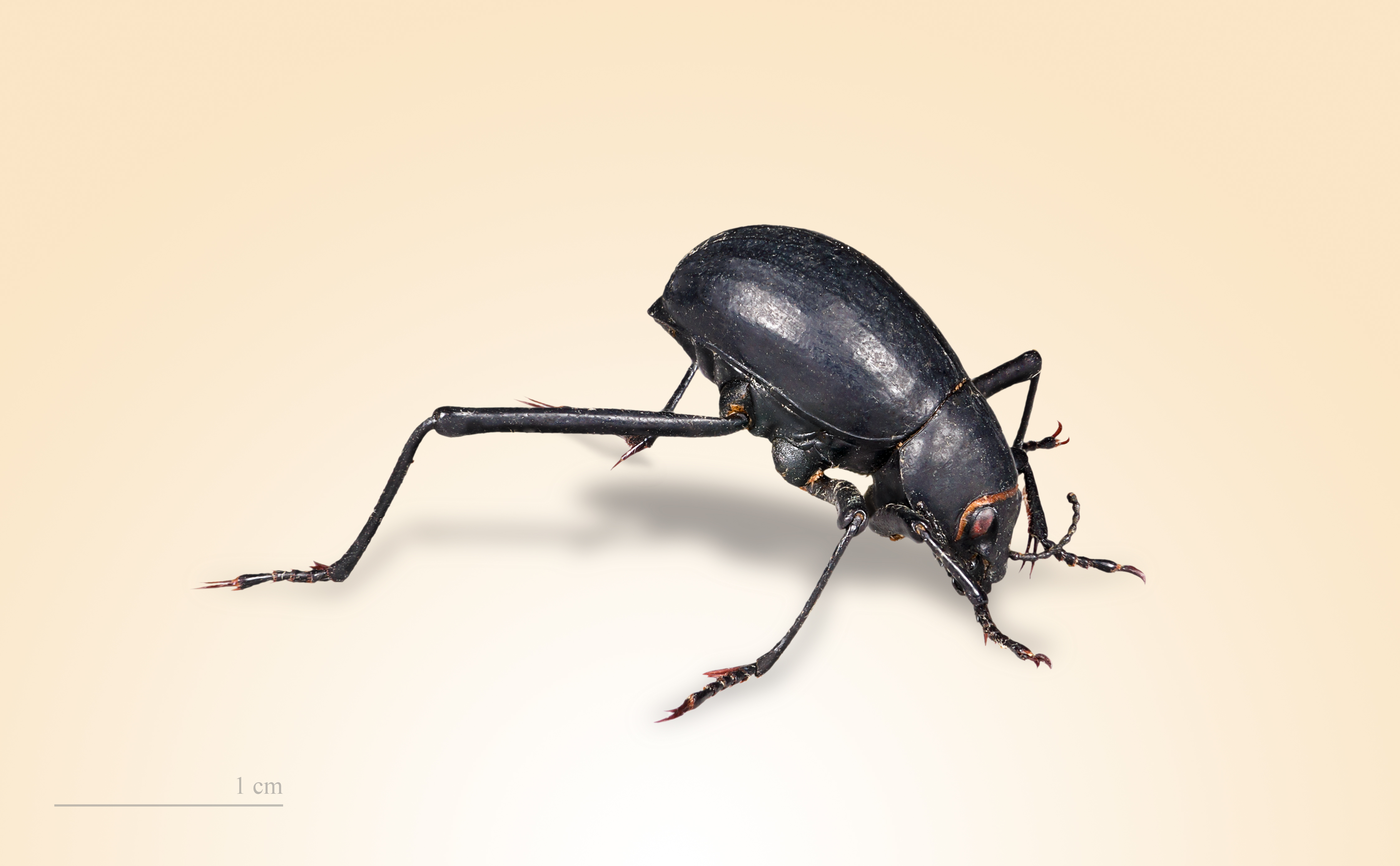 Namibian fog-basking beetl, in position of mist condensation. Locality :Walvis Bay, Namibia.